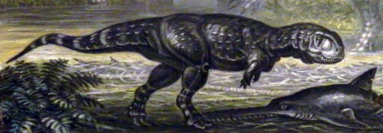 Rugops feeding on a sawfish.